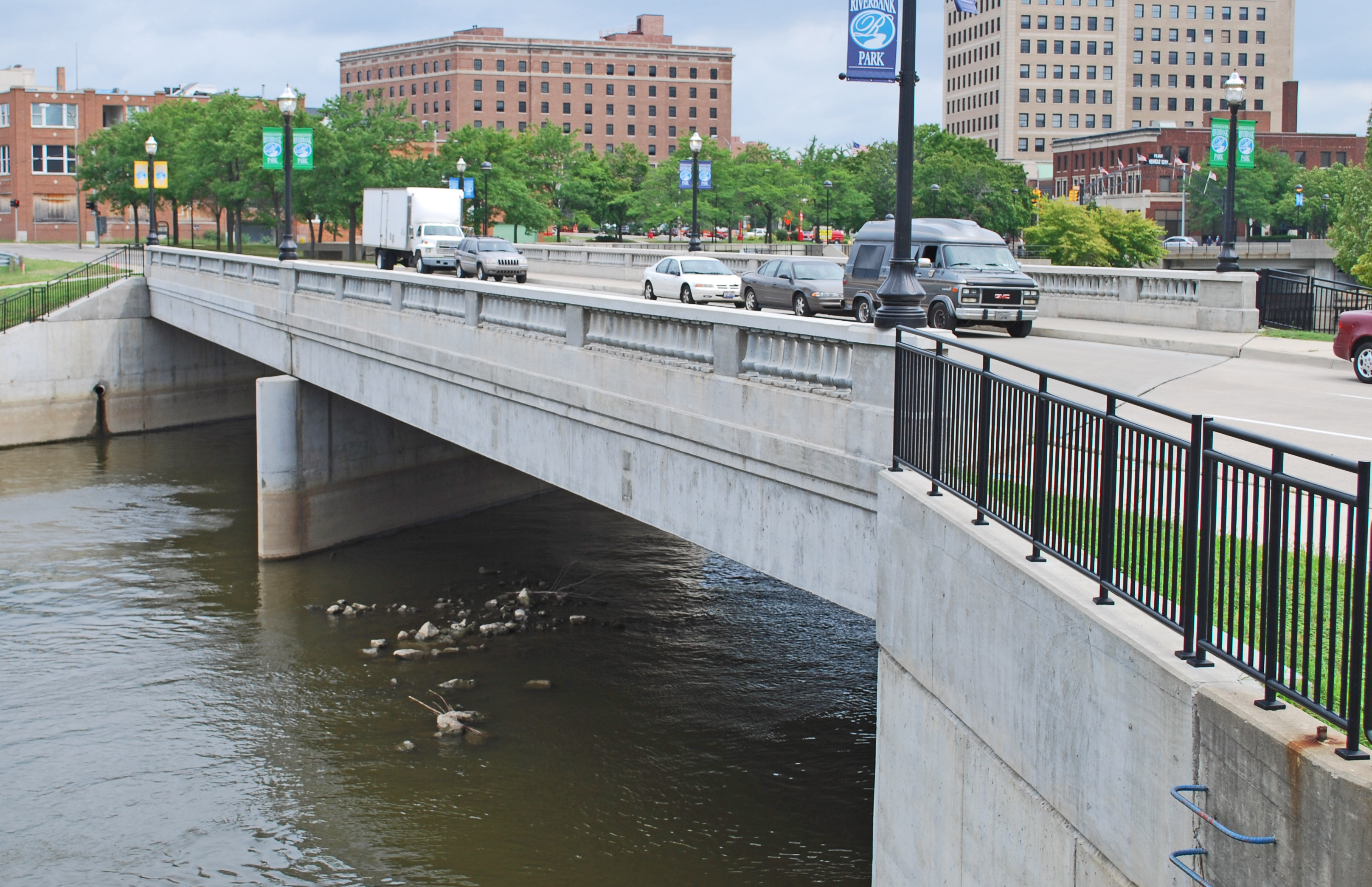 Beach-Garland St-Flint River Bridge, Flint MI